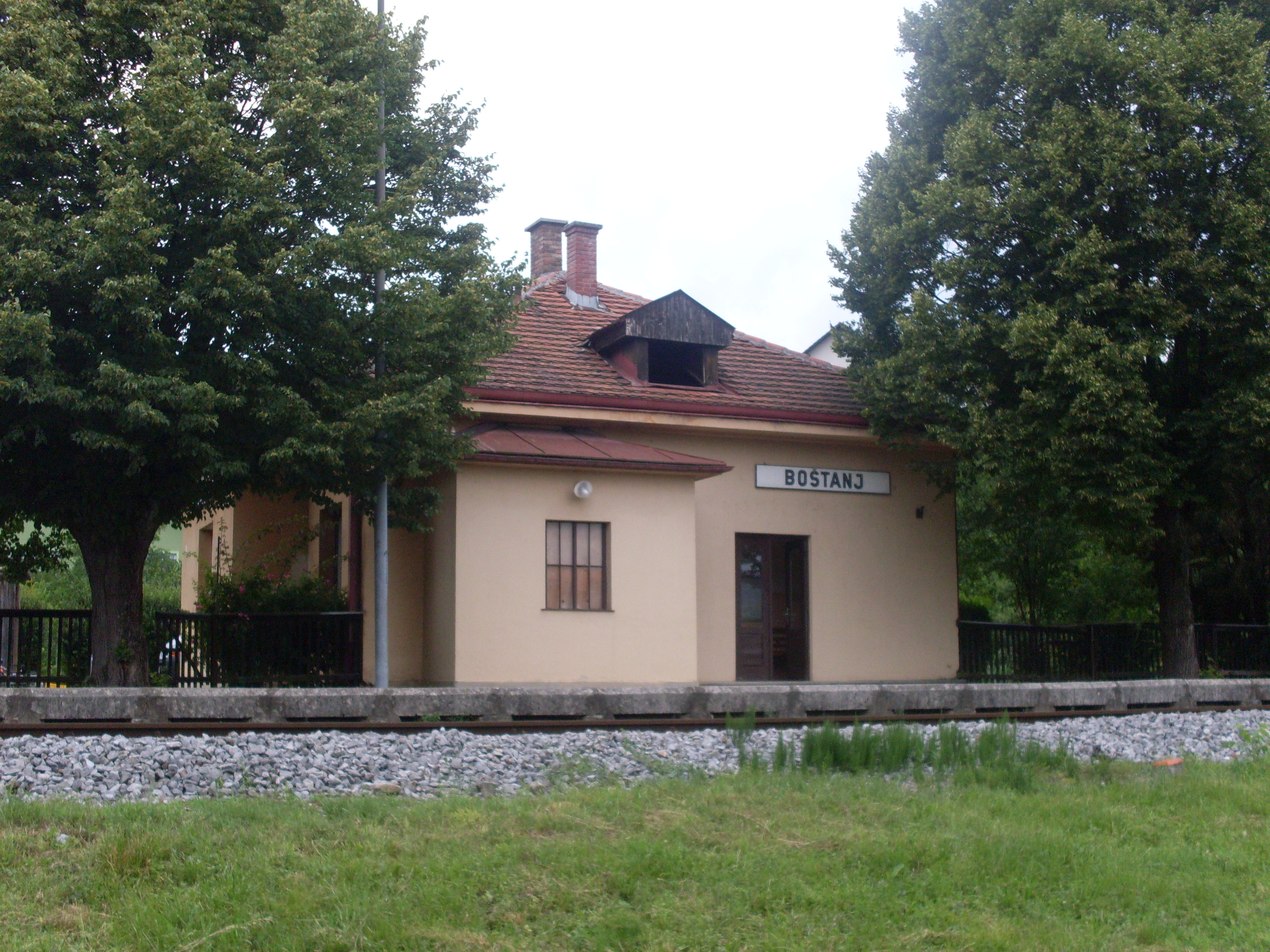 Boštanj railway halt, located in Dolenji Boštanj